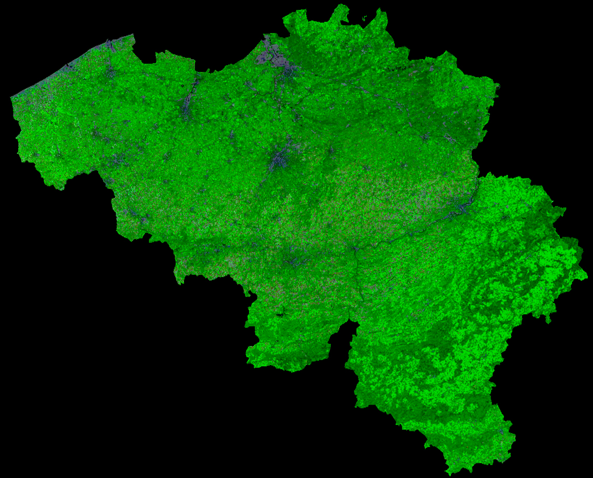 A cloud-free image in 300 m per pixel resolution of Belgium, showing land cover and vegetation growth; acquired by ESA’s Proba-V satellite.